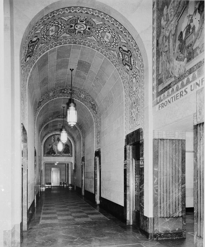 Buffalo City Hall - Interior, first floor, east corridor looking north . Removed caption read: HABS No. NY-6033-11